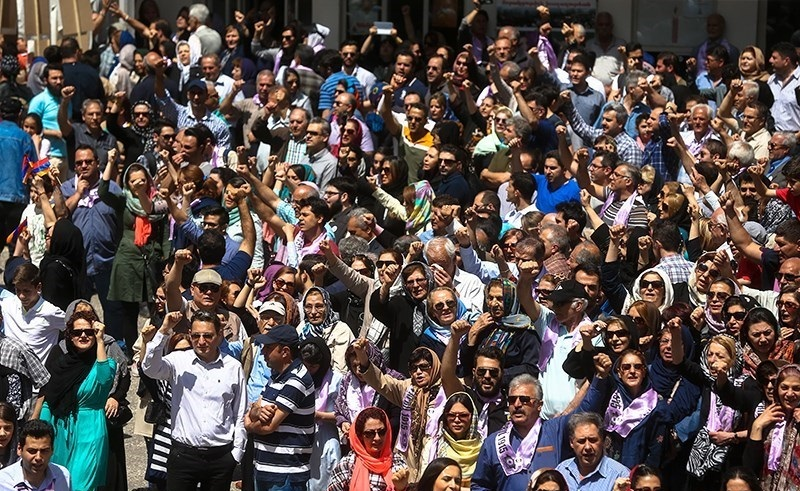 Armenian Genocide Remembrance Day, Saint Sarkis Cathedral, Tehran, Iran